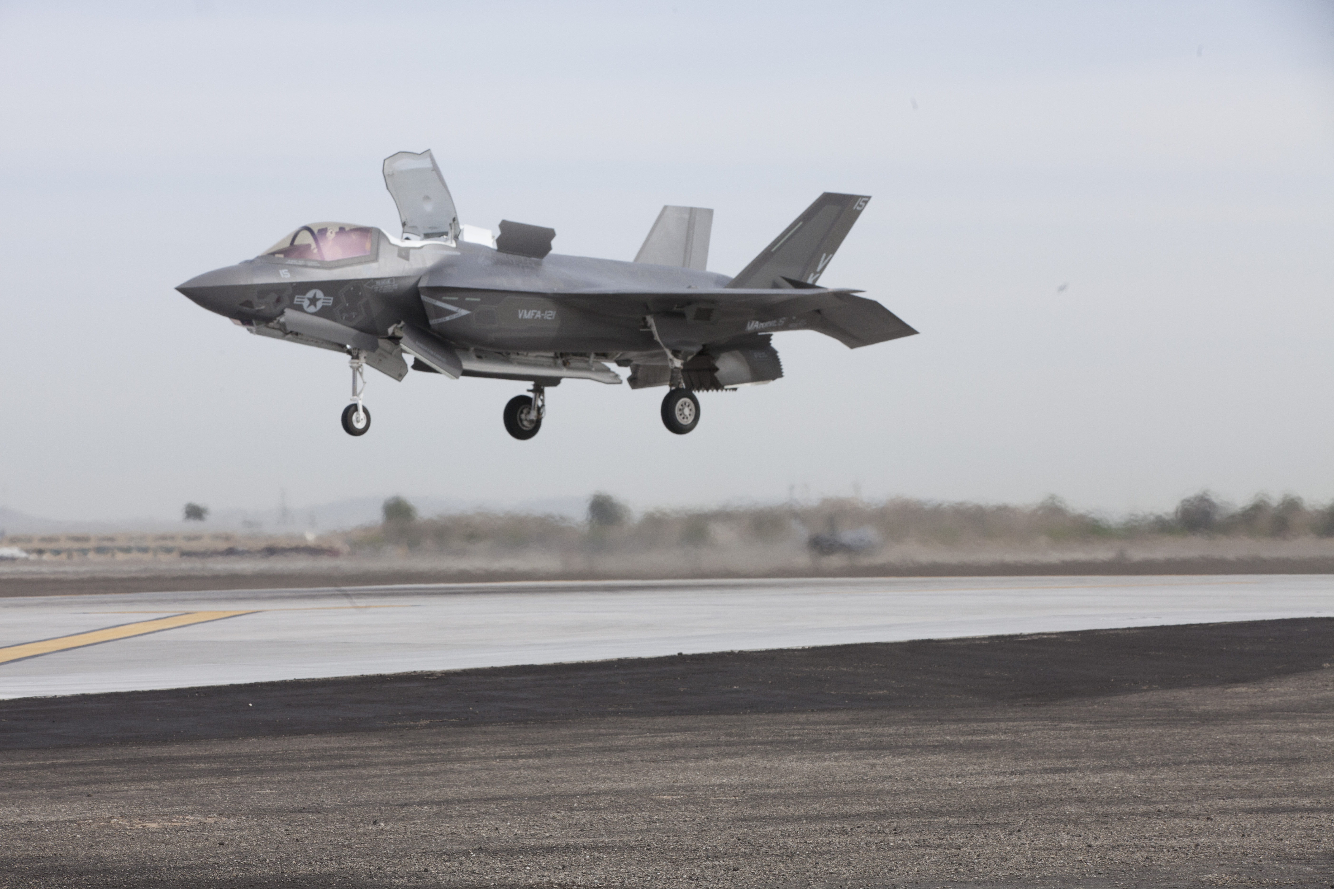 An F-35B Lightning II from Marine Fighter Attack Squadron 121 conducts a vertical landing on the Marine Corps Air Station Yuma, Ariz. flightline March 21, 2013. BF-19, piloted by Maj. Richard Rusnok, an F-35B test pilot, marked an important milestone in the evolution of the aircraft conducting the first short take off, vertical landing outside of a testing environment. (Photo by Staff Sgt Jessica Smith) Unit: Marine Corps Air Station Yuma